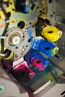 Toner_refill_colourit_1